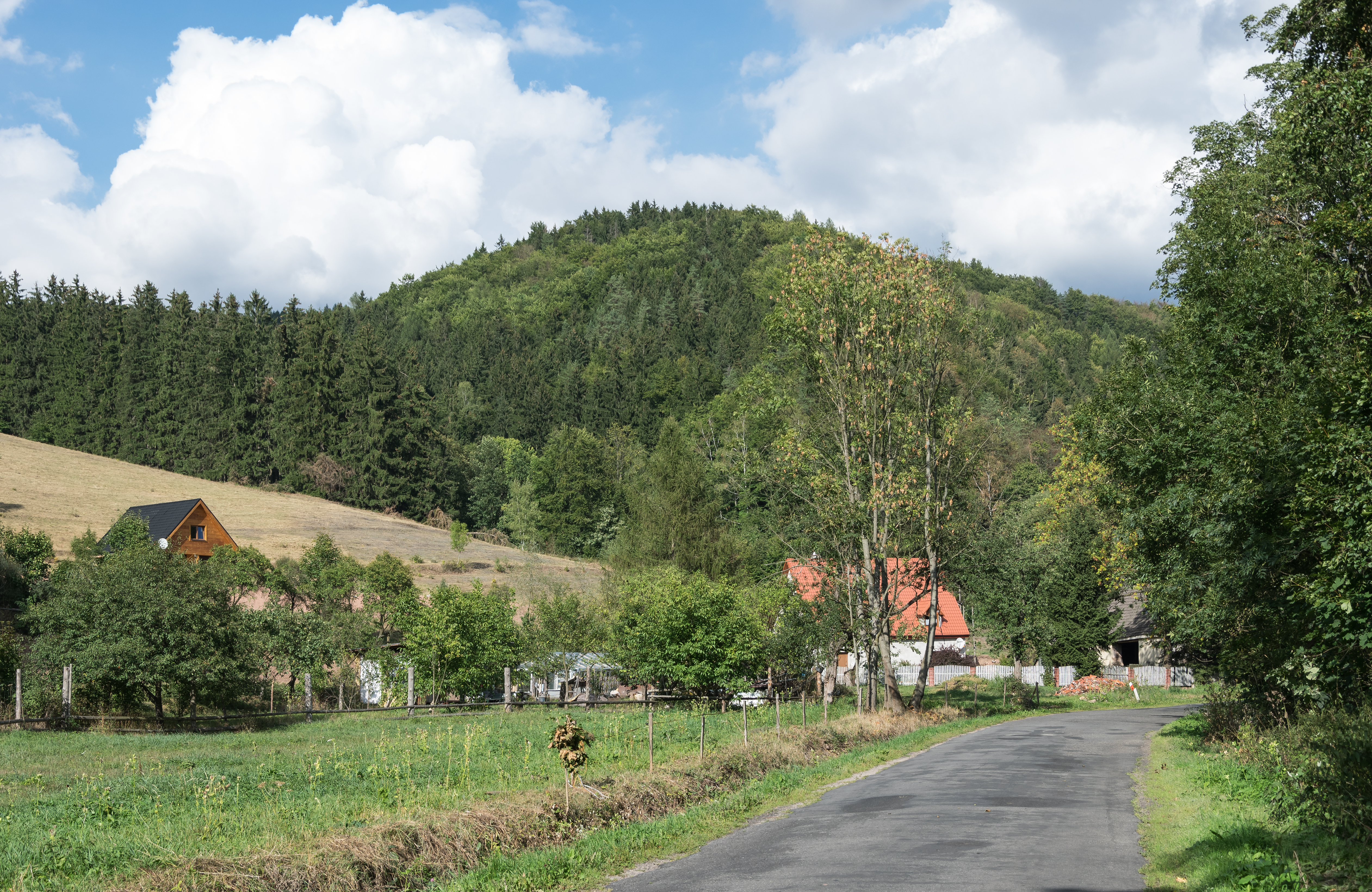 Krucza Kopa, Stołowe Mountains, Sudetes This is a photography of protected area with CRFOP ID PL.ZIPOP.1393.PN.15